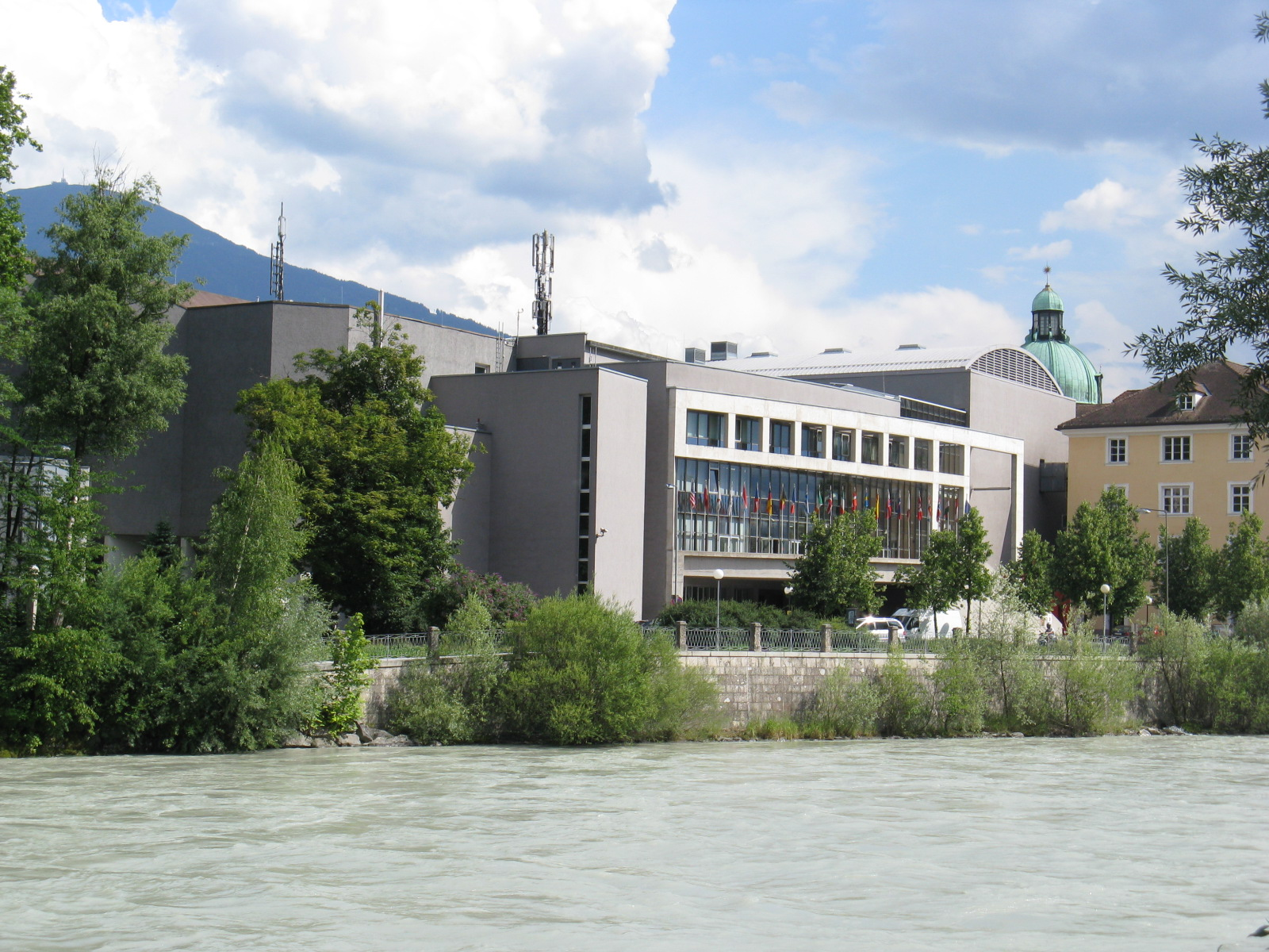 Congress Innsbruck, seen from Inn (Herzog-Otto-Ufer)